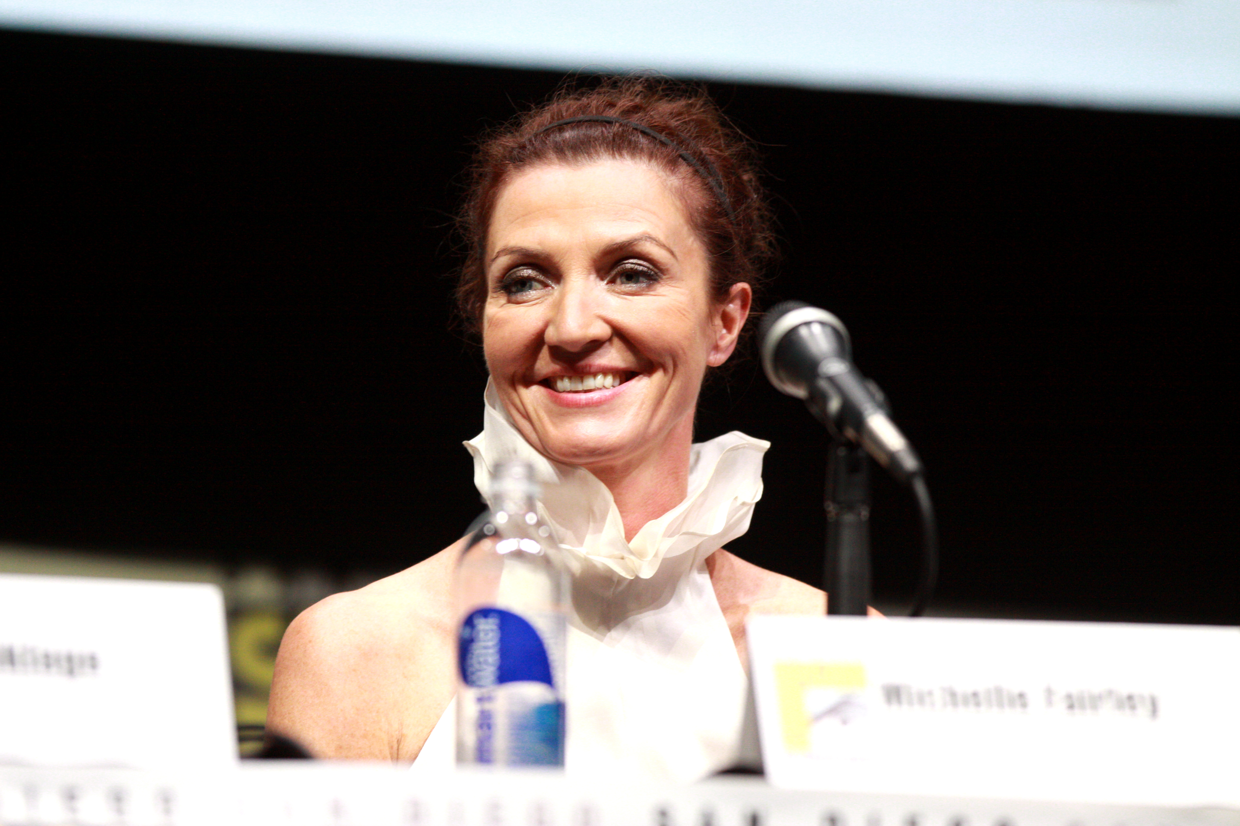 Michelle Fairley speaking at the 2013 San Diego Comic Con International, for "Game of Thrones", at the San Diego Convention Center in San Diego, California.